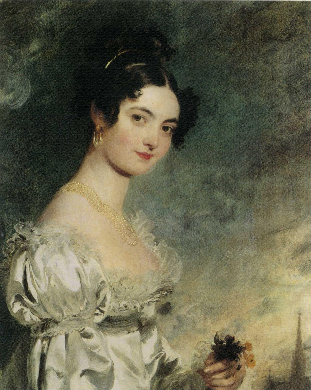 Lady Selina Caroline Meade (1797–1872) was the second daughter of Richard Meade, 2nd Earl of Clanwilliam (1766–1805) and his wife, Countess Caroline (third daughter of Joseph Count of Thun-Hohenstein in Bohemia). Lady Selina Caroline married the Austrian General and field Marshal Karl II. Johann Nepomuk Count Clam-Martinic (1792-1840) in 1821. Sir Thomas Lawrence painted this portrait of her in April 1819, when he was in Vienna painting portraits of allied leaders for the Prince of Wales, a series known as the Waterloo Portraits. Lawrence described her as "in beauty and interesting character, one of the most distinguished persons in Vienna". Lady Selina Caroline is painted half-length, body facing right with head turned in three-quarter profile, looking at viewer; wearing a white satin dress with lace-edged décolletage, long full gathered sleeves, and a thin sash under the bust, multiple-strand pearl necklace and pearl drop earrings, and her hair in a topknot with ringlets. She holds a posy in her left hand. In the background at lower right is the Stephansdom in Vienna.